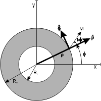 Halbach cylinder- Cylinder magnetization. Halbach cylinder Image 2, created for a thesis.